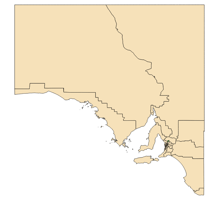 Electoral district 2018 boundaries shown in green